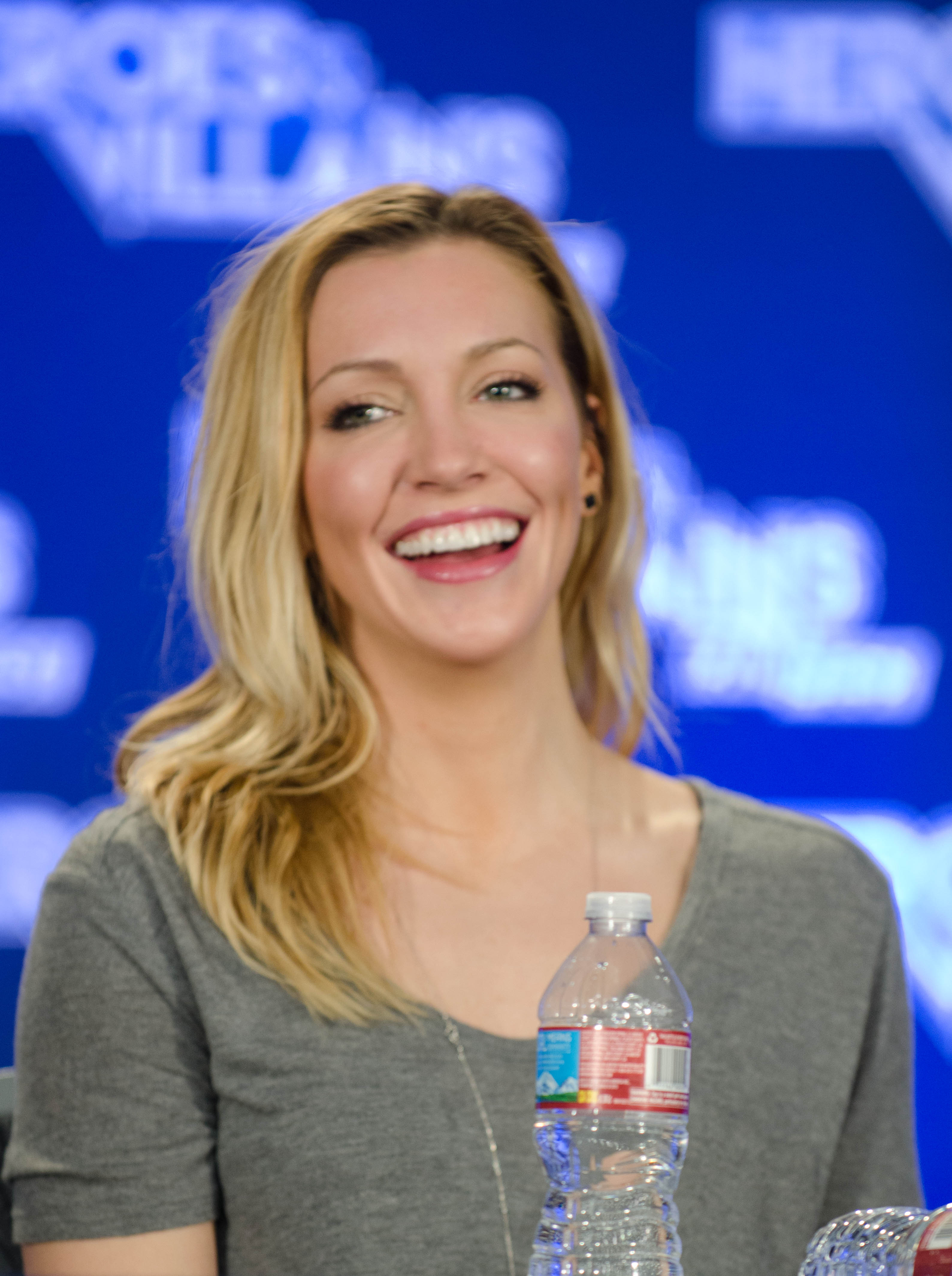 Katie Cassidy HVFF The Lances panel.